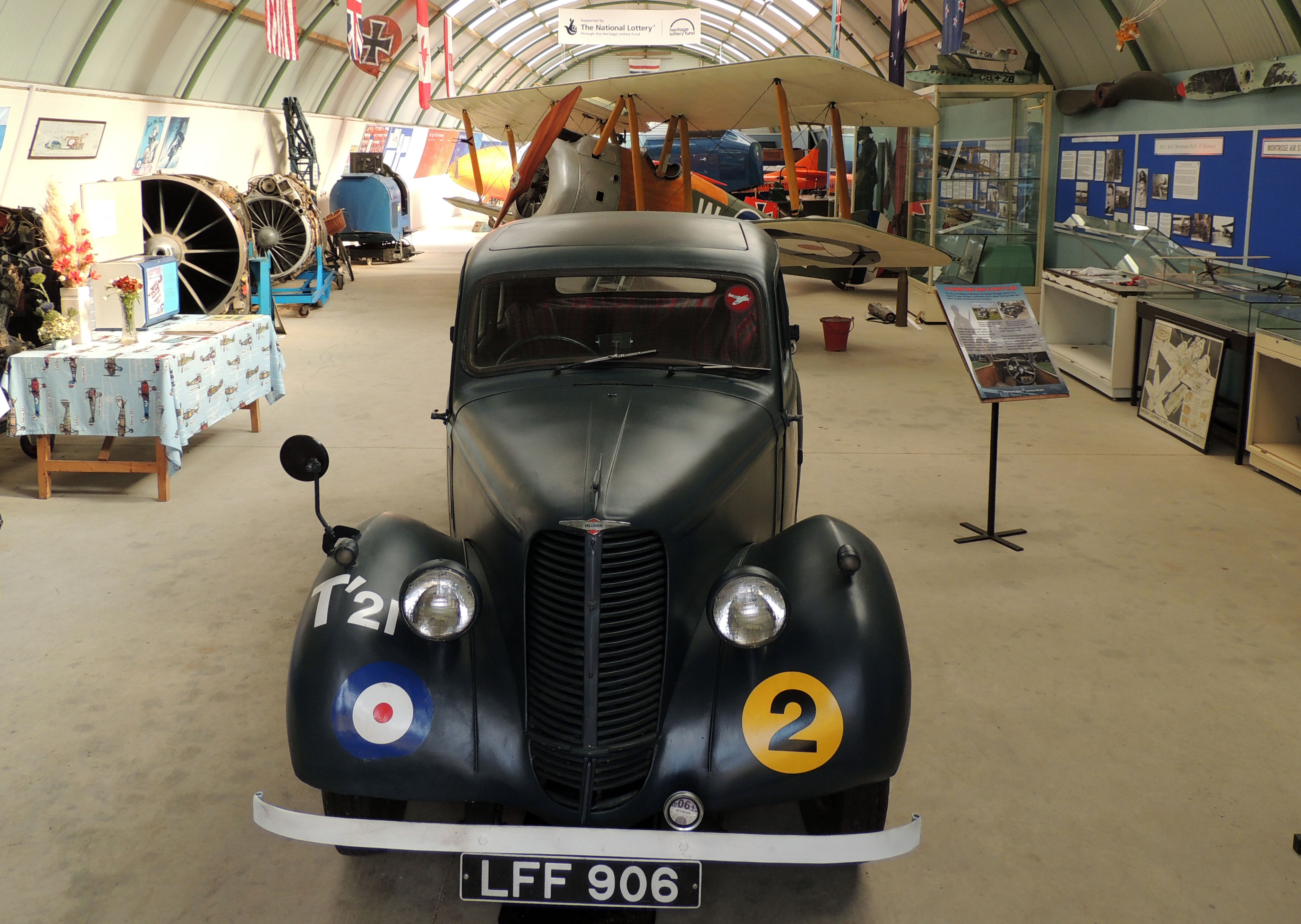 1944 Hillman RAF Staff Car at Montrose Air Station Heritage Centre, Scotland.